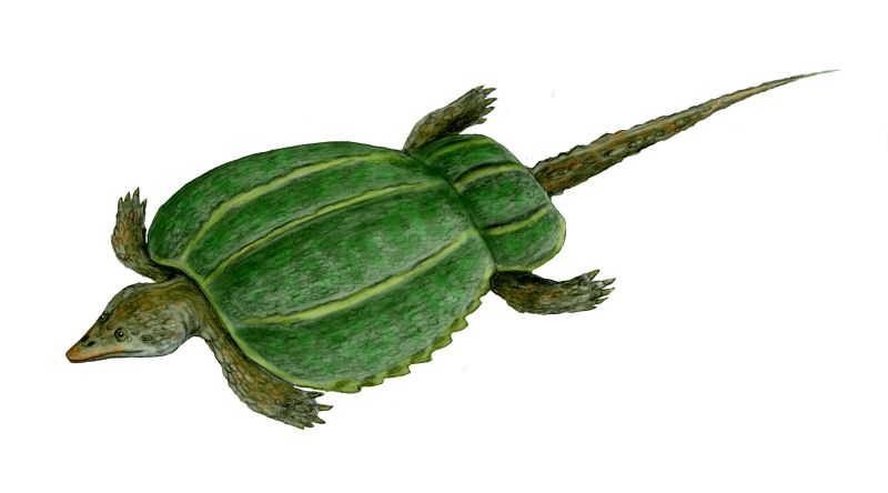 Psephoderma alpinum, a placodont from the Late Triassic of Europe, pencil drawing